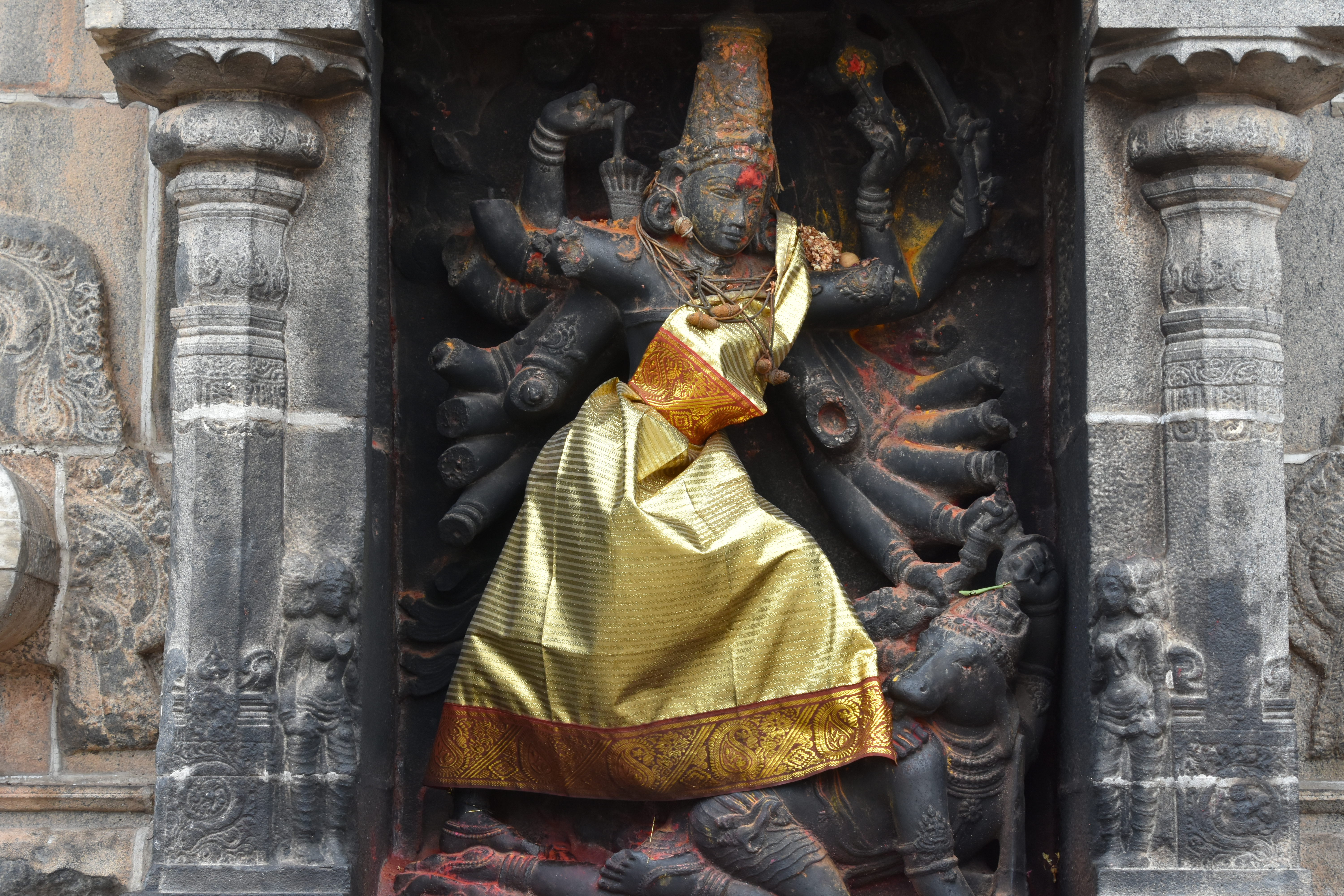 Chidambaram Temple is a Hindu temple dedicated to Nataraja, the dancing Shiva. The dance of Shiva in Chidambaram temple narrates the Natya Shastra, the Sanskrit classic on performance arts.